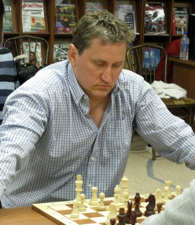 oleg korneev 2012